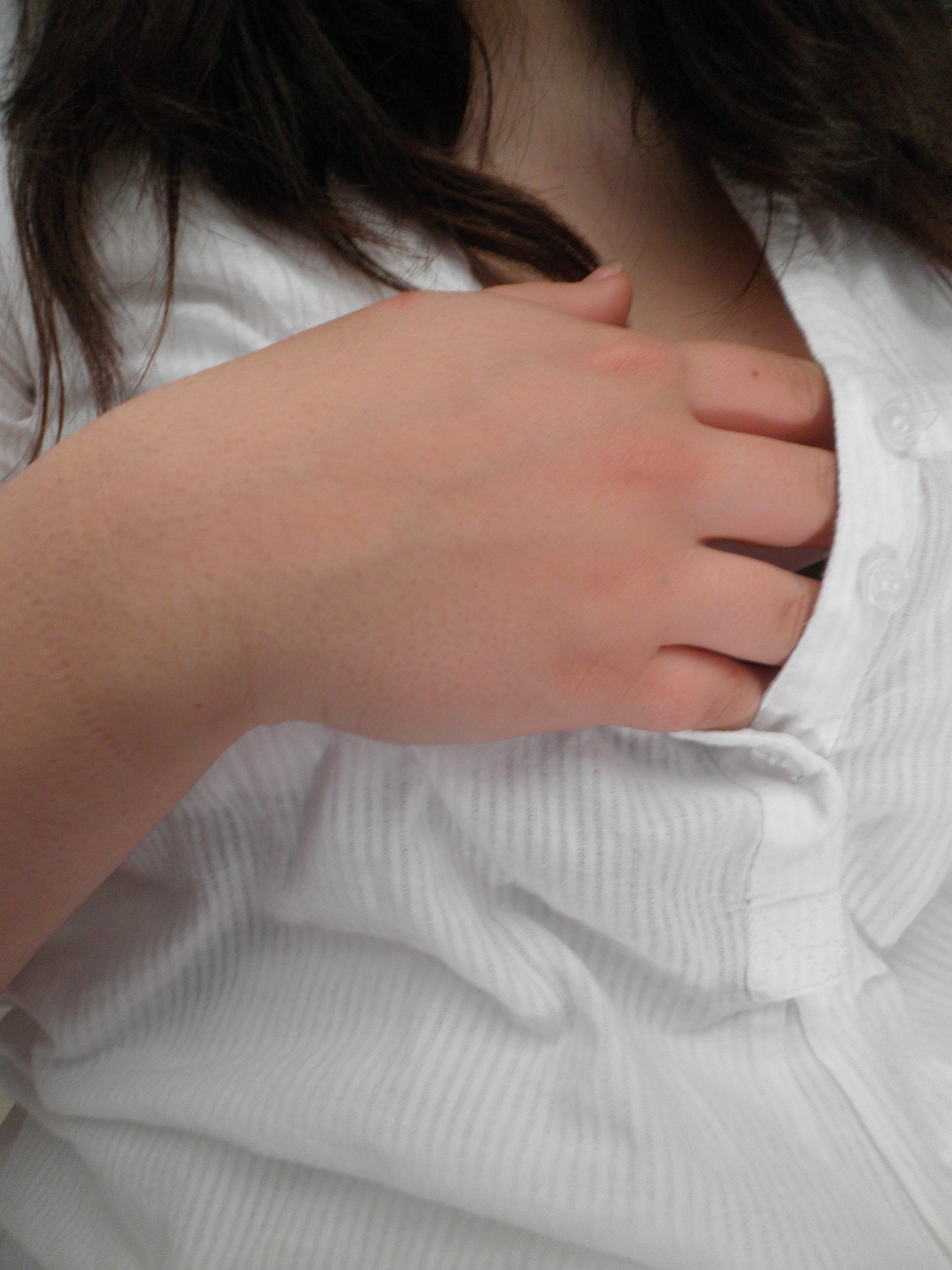 Breast caressing.